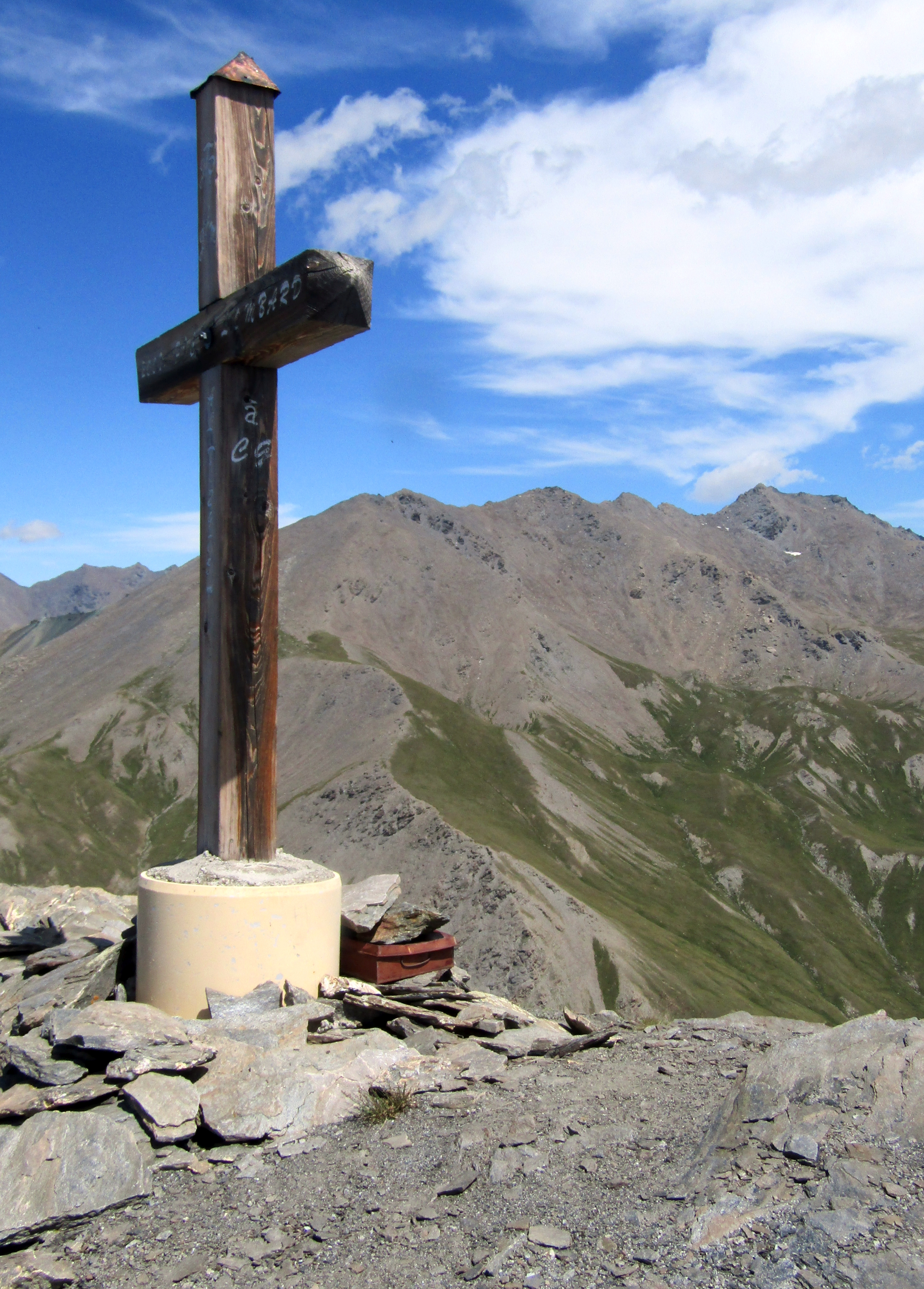 The Pic du Lombard (Cottian Alps, France):summit cross; on its right the Grand Glaiza or Punta Merciantaira